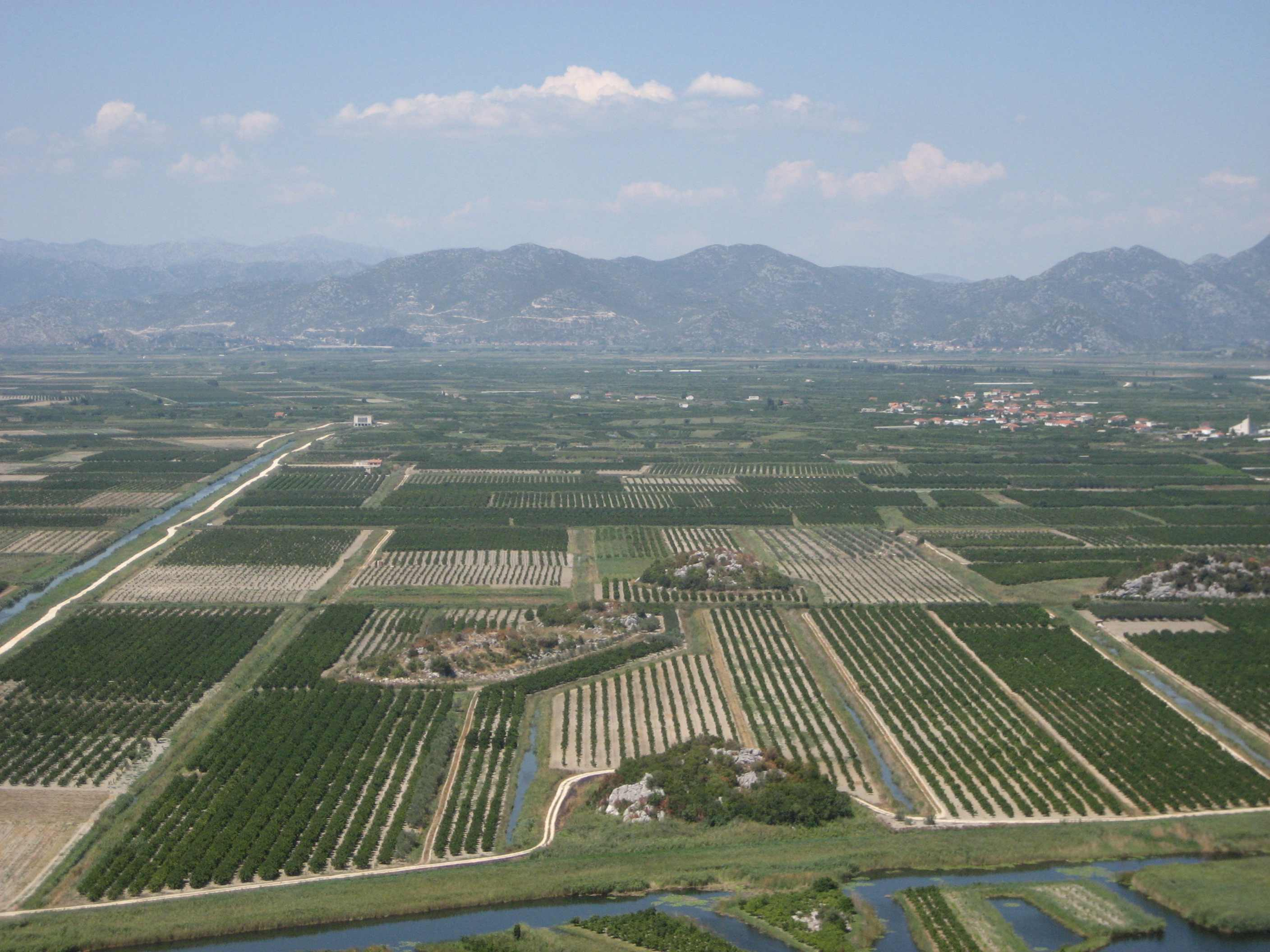 Neretva Plantations, Croatia